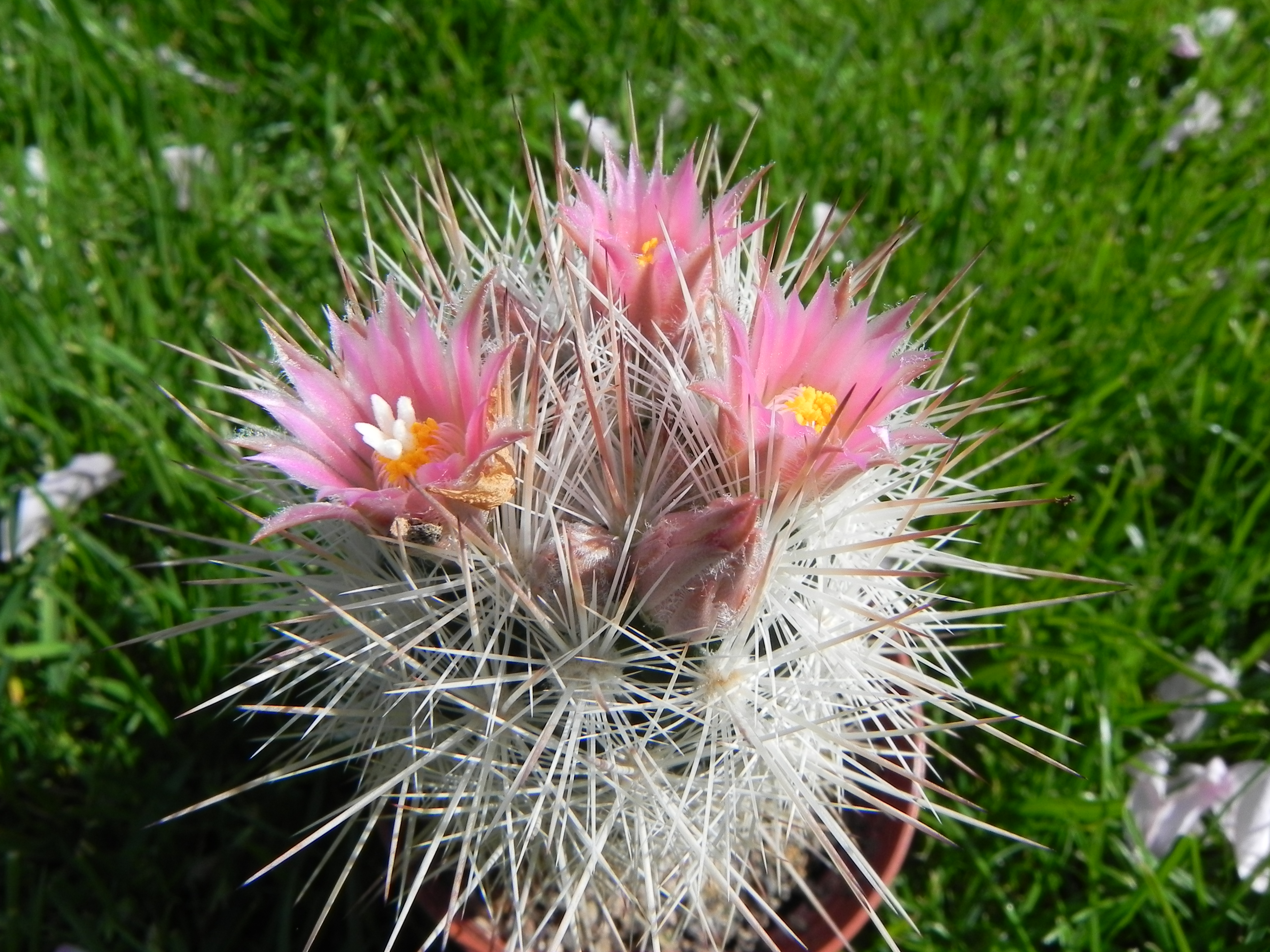 Photo of the cactus Escobaria albicolumnaria Hester, taken from a plant in cultur, with flowers.